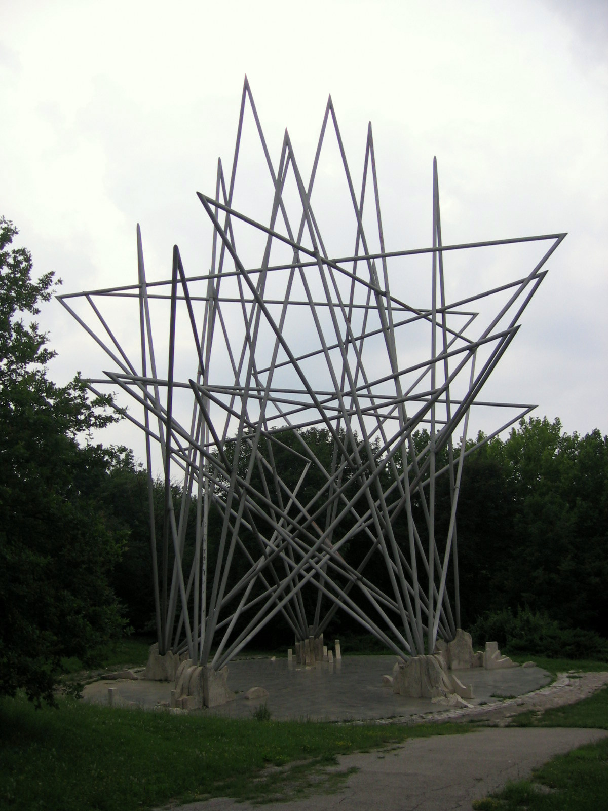 "Star" monument located in Memorial park "Cacalica" (serbian "Čačalica"), Pozarevac, Serbia.